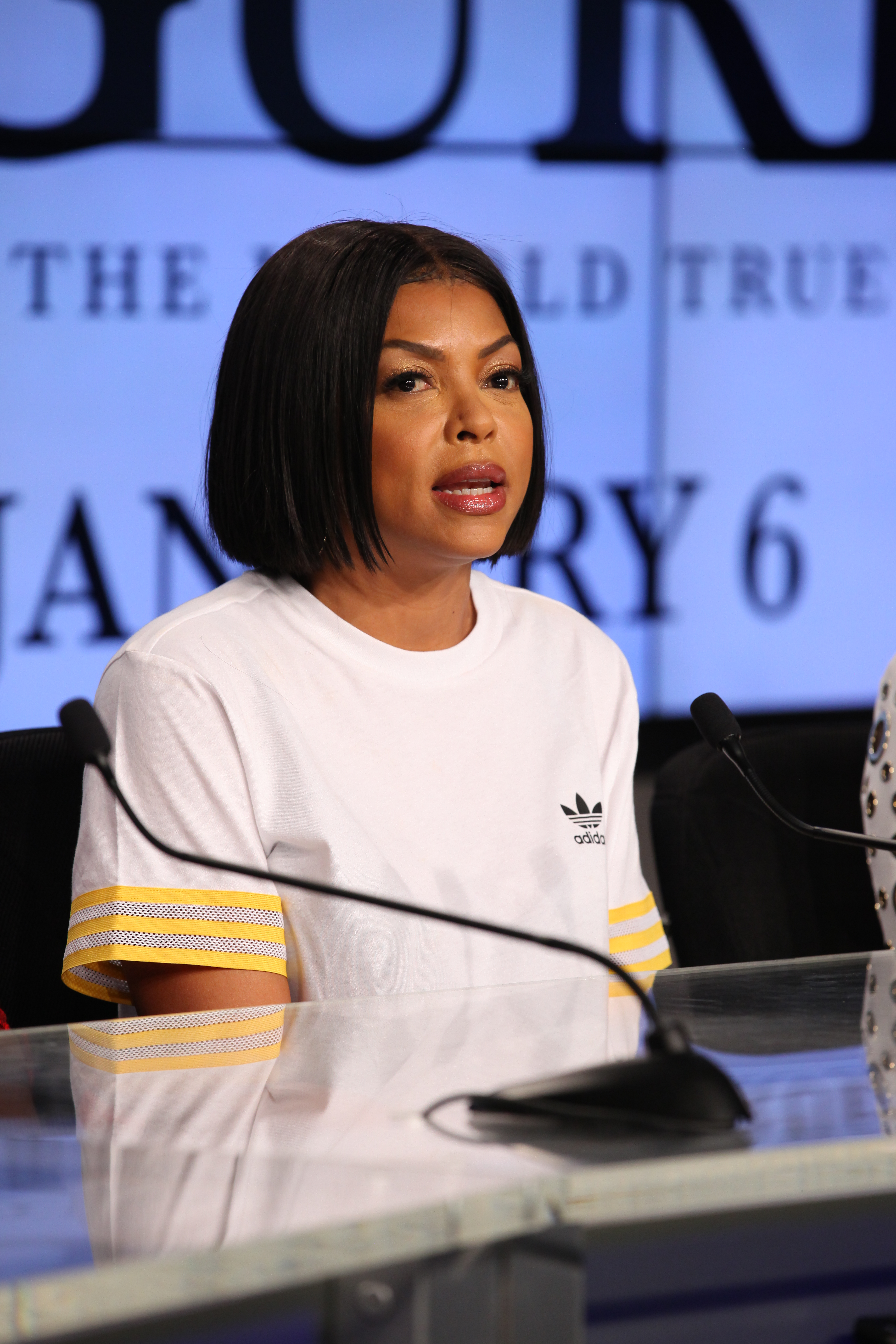 In the Press Site auditorium at the Kennedy Space Center in Florida, Taraji P. Henson speaks to members of the media during a news conference with other key individuals involved in the upcoming motion picture "Hidden Figures." The movie is based on the book of the same title, by Margot Lee Shetterly. It chronicles the lives of Katherine Johnson (played by Henson), Dorothy Vaughan and Mary Jackson, three African-American women who worked for NASA as human "computers.” Their mathematical calculations were crucial to the success of Project Mercury missions including John Glenn’s orbital flight aboard Friendship 7 in 1962. The film is due in theaters in January 2017. Photo credit: NASA/Kim Shiflett NASA image use policy.